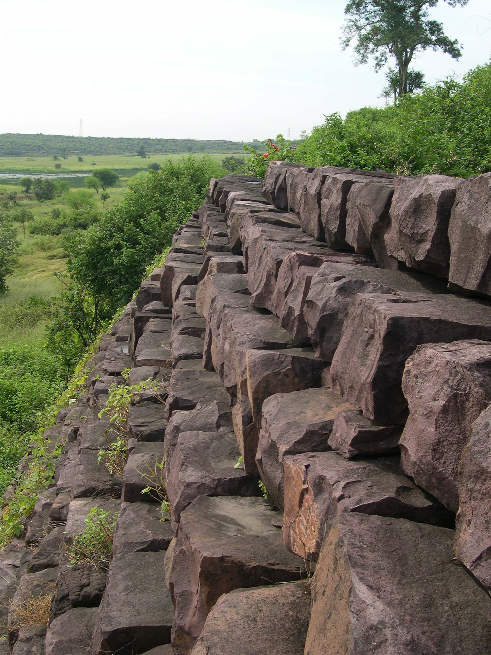 Detail of a dam at Bhojpur, Madhya Pradesh, India. 11th century